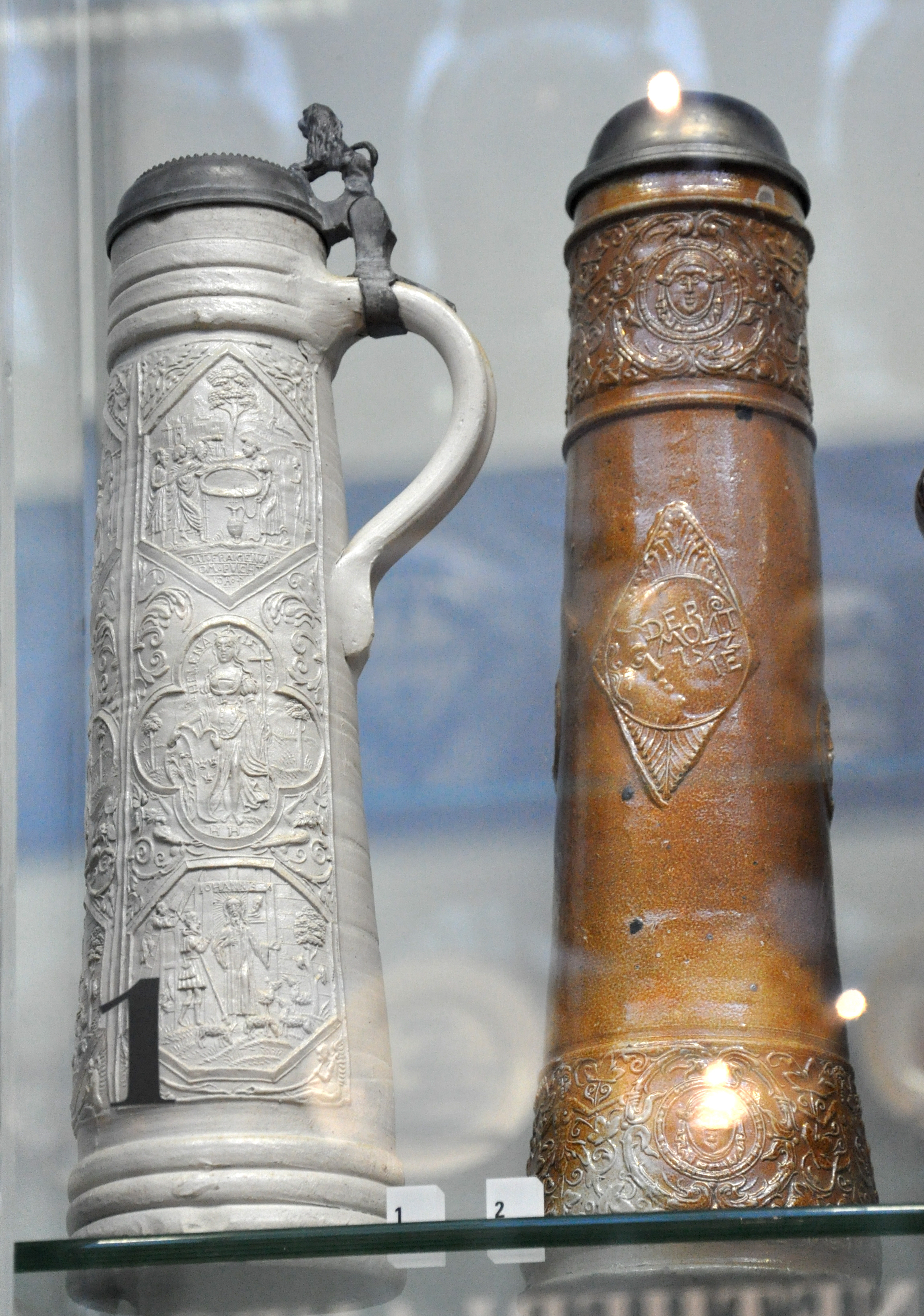 Left: Tankard (Schnelle) depicting scenes from the life of Christ and St Helena, made by Hans Hilgers in Siegburg, dated 1570; stoneware with applied moulded decoration; Victoria and Albert Museum, London, museum no. 817-1868 (Link) Right: Tankard made by Jan Emens Mennicken, Raeren, dated 1577; Victoria and Albert Museum, London, museum no. 778-1868 (Link)